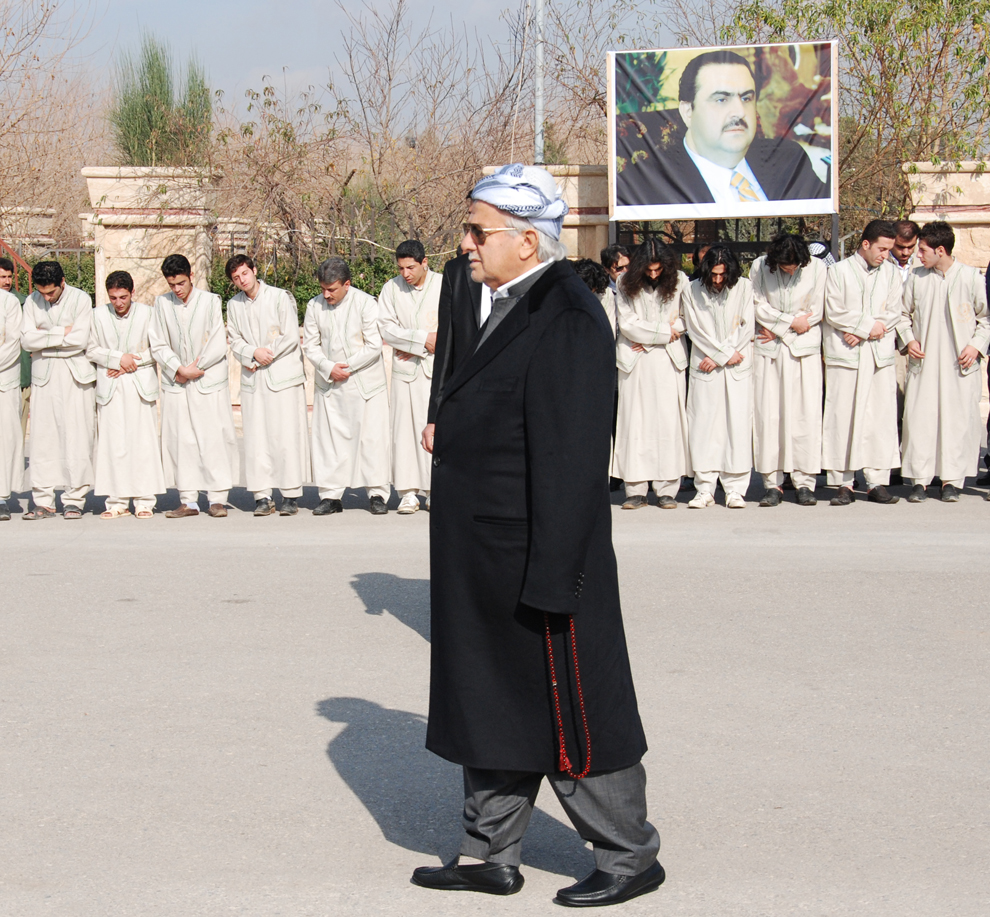 hazraty sheikh muhammad kasnazani2